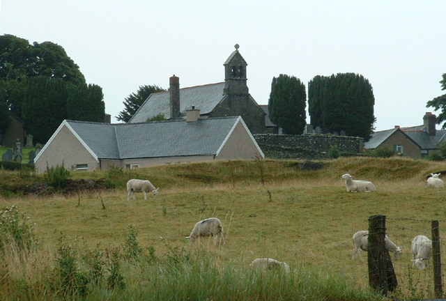 Cerrigydrudion. Chapel & houses viewed from the South